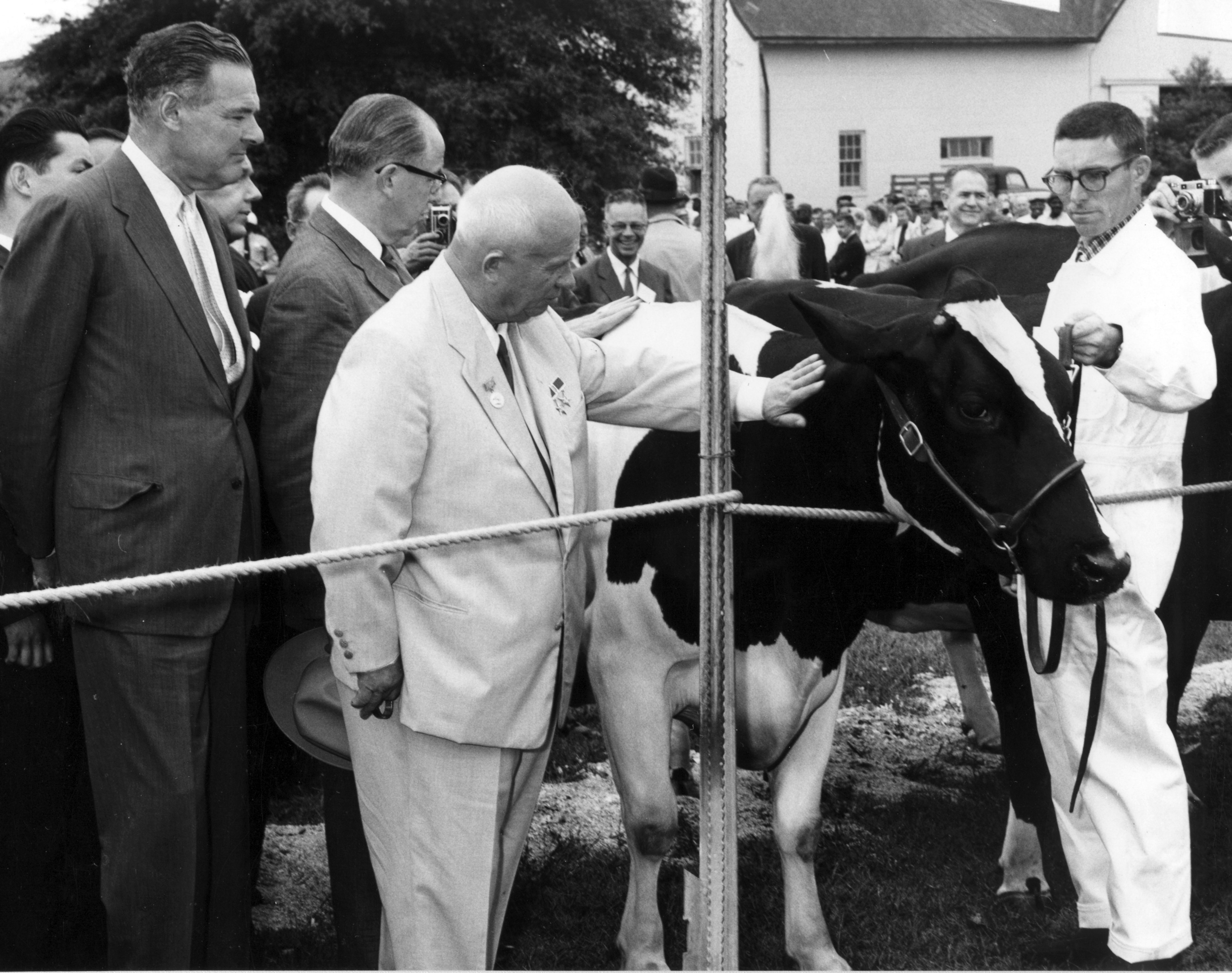 Premier Nikita S. Khrushchev pats high milk producer Impgodo Alice, national 9-year old class leader in the U. S. Department of Agriculture's (USDA) prize Holstein-Friesian dairy herd. Agriculture Secretary Ezra Taft Benson and U. S. Ambassador to the United Nations Henry Cabot Lodge (left) look on. The dairy herd was one of the exhibits shown to the Premier during his visit September 16, 1959 to the Agricultural Research Service (ARS) Center in Beltsville, Maryland. During his visit to the ARS Center, Premier Khrushchev learned how USDA’s dairy breeding experiment increased the annual production of milk by 15 percent and butterfat by 34 percent in eight generations. Photo courtesy of National Archives and Records Administration.